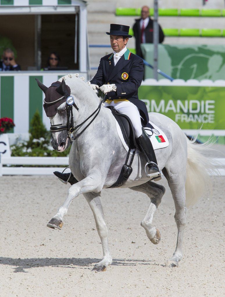 Carlos Pinto - Soberano IIIAlltech FEI World Equestrian Games™ 2014 - Normandy, France.